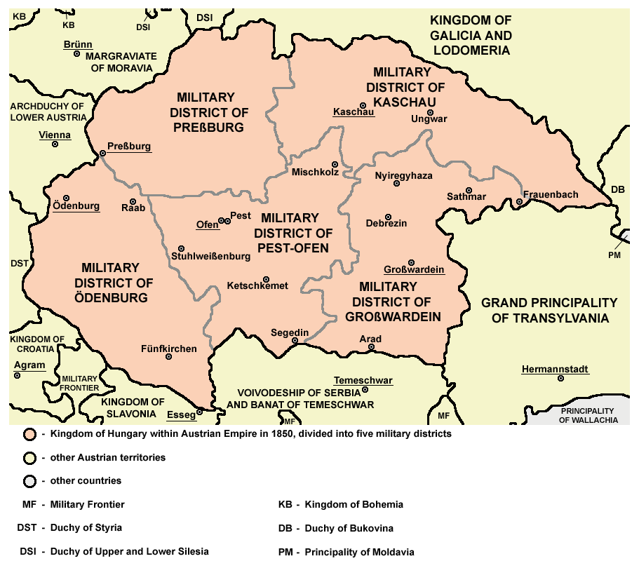 Kingdom of Hungary within Austrian Empire in 1850, divided into five military districts. Dystrykty wojskowe na Węgrzech w 1850.